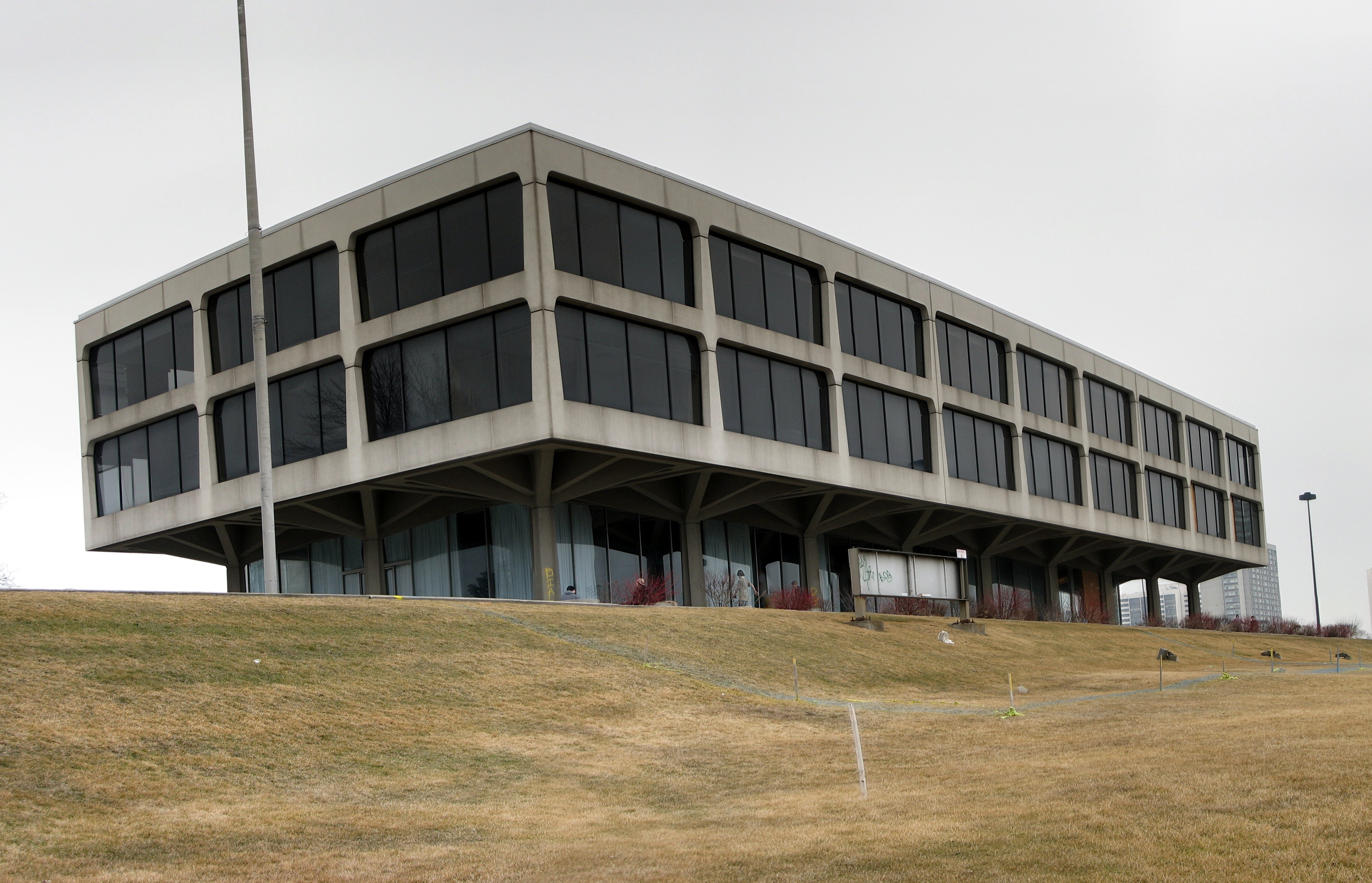 Created from 12 photos using AutoStitch Camera: Canon S3 IS Bata Shoe Headquarters (John P. Parkin Associates, 1964) A modern Acropolis, destined for destruction. This photo was blogged here